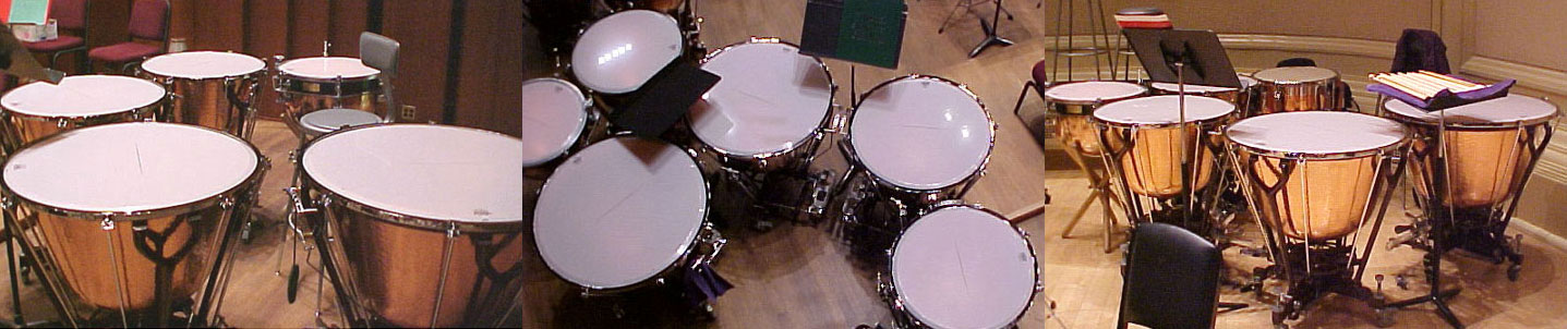 Timpani setup.